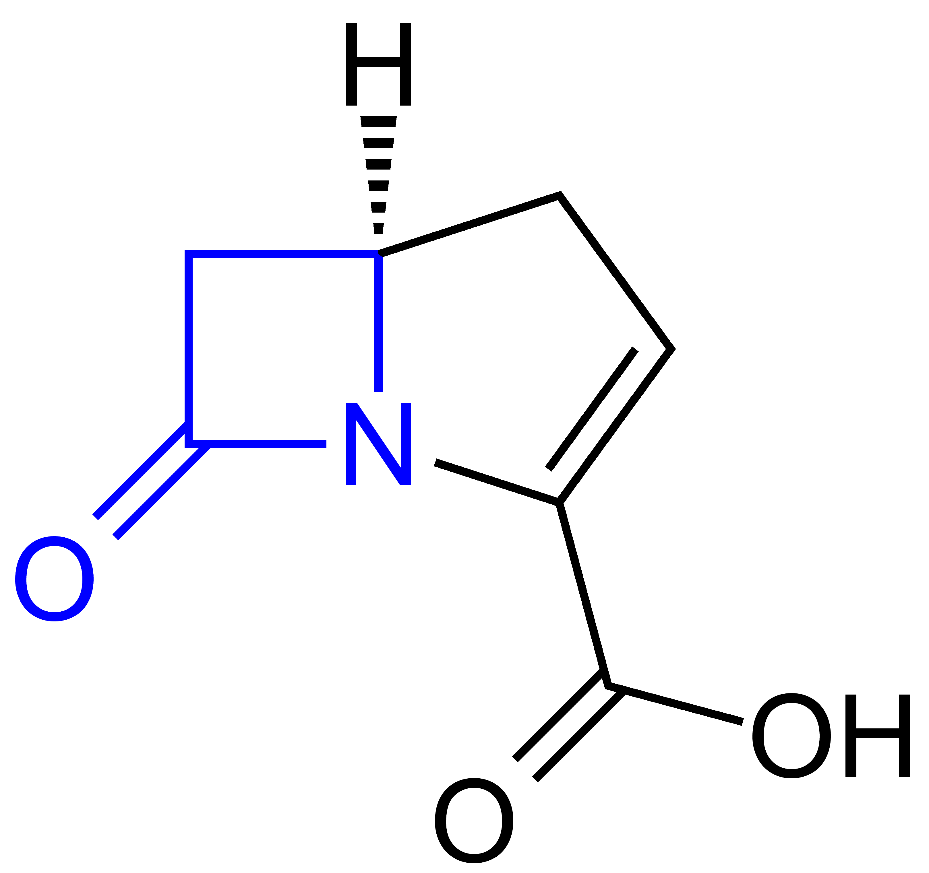 Carbapenem_General_Structure